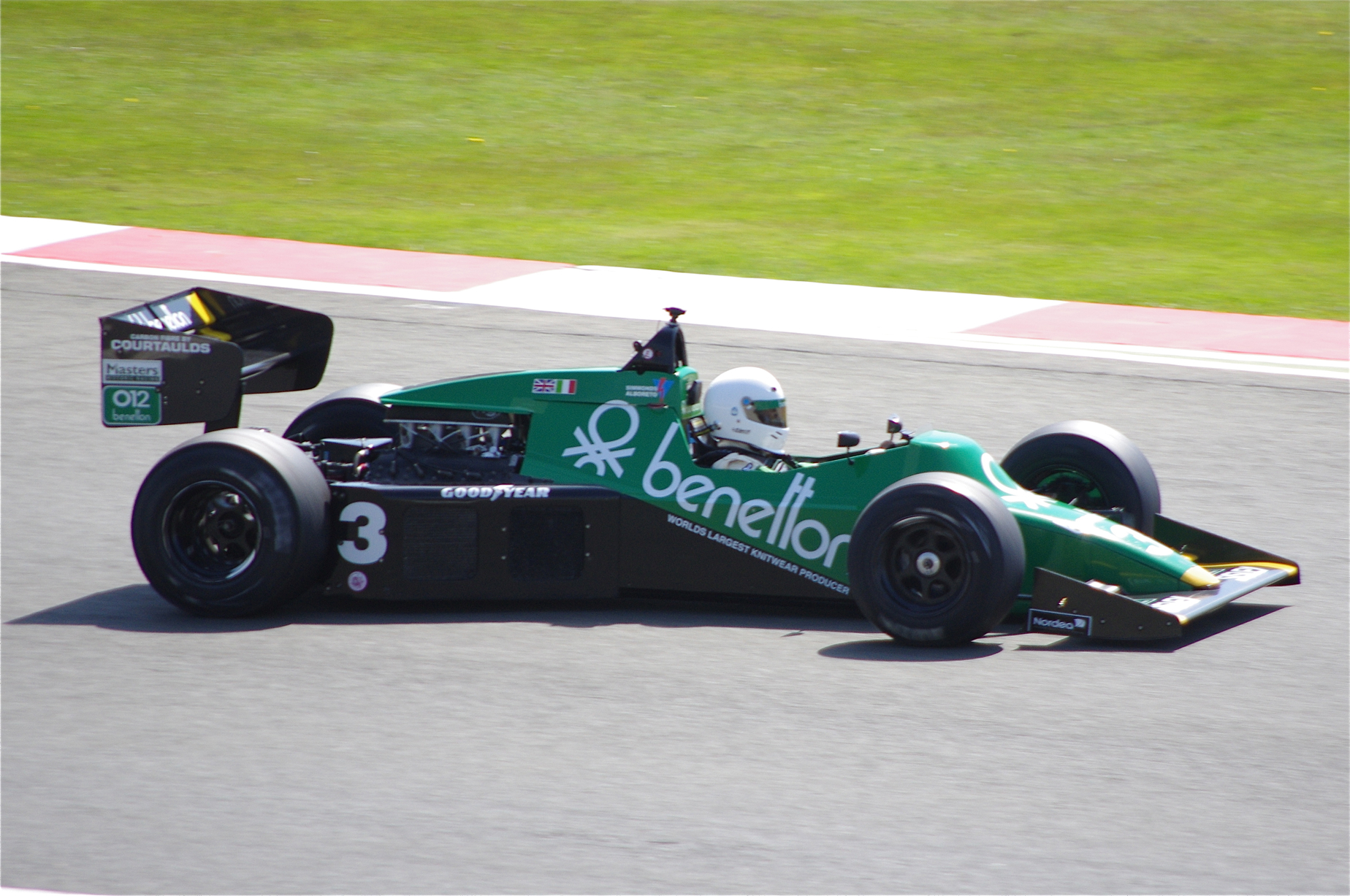 A 1983 Tyrrell 012 Formula One car, at the Silverstone Classic race meeting in 2012.